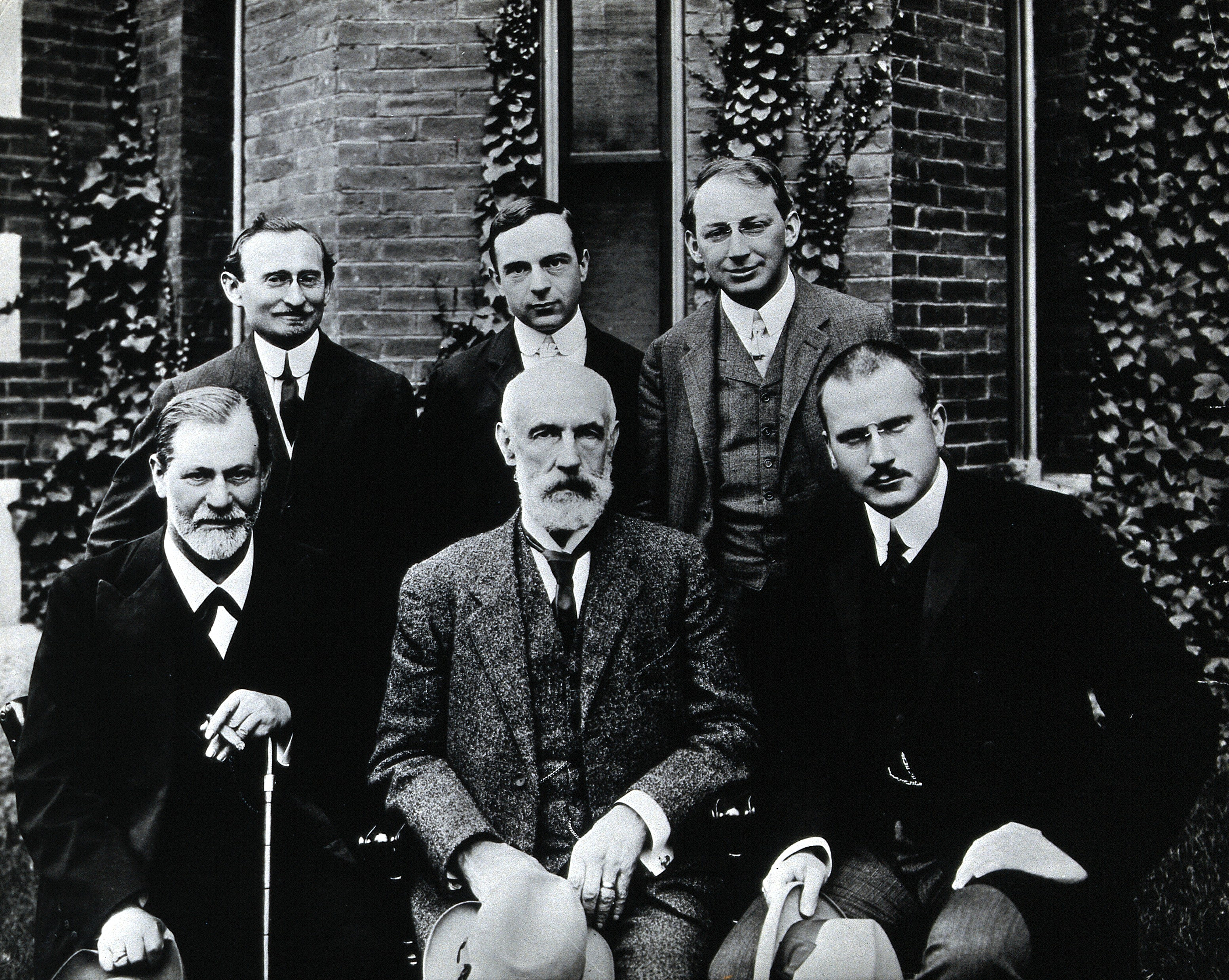 Sigmund Freud, Stanley Hall, Carl Gustav Jung, Abraham Arden Brill, Ernest Jones and Sándor Ferenczi. Photograph, 1909. Iconographic Collections Keywords: portrait photographs